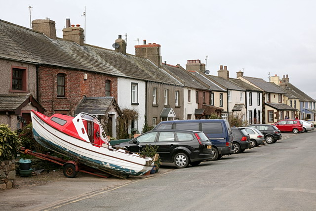 Houses on Main St. Ravenglass